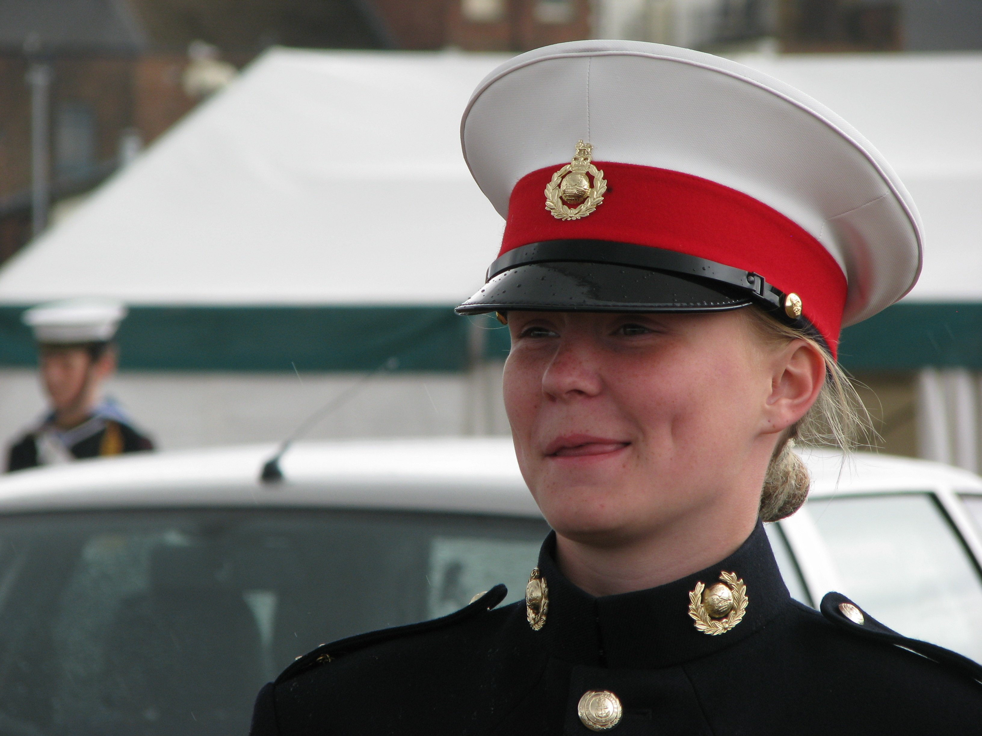 Sea Cadet Corps (Female Marine Cadet) at Hartlepool Maritime Festival